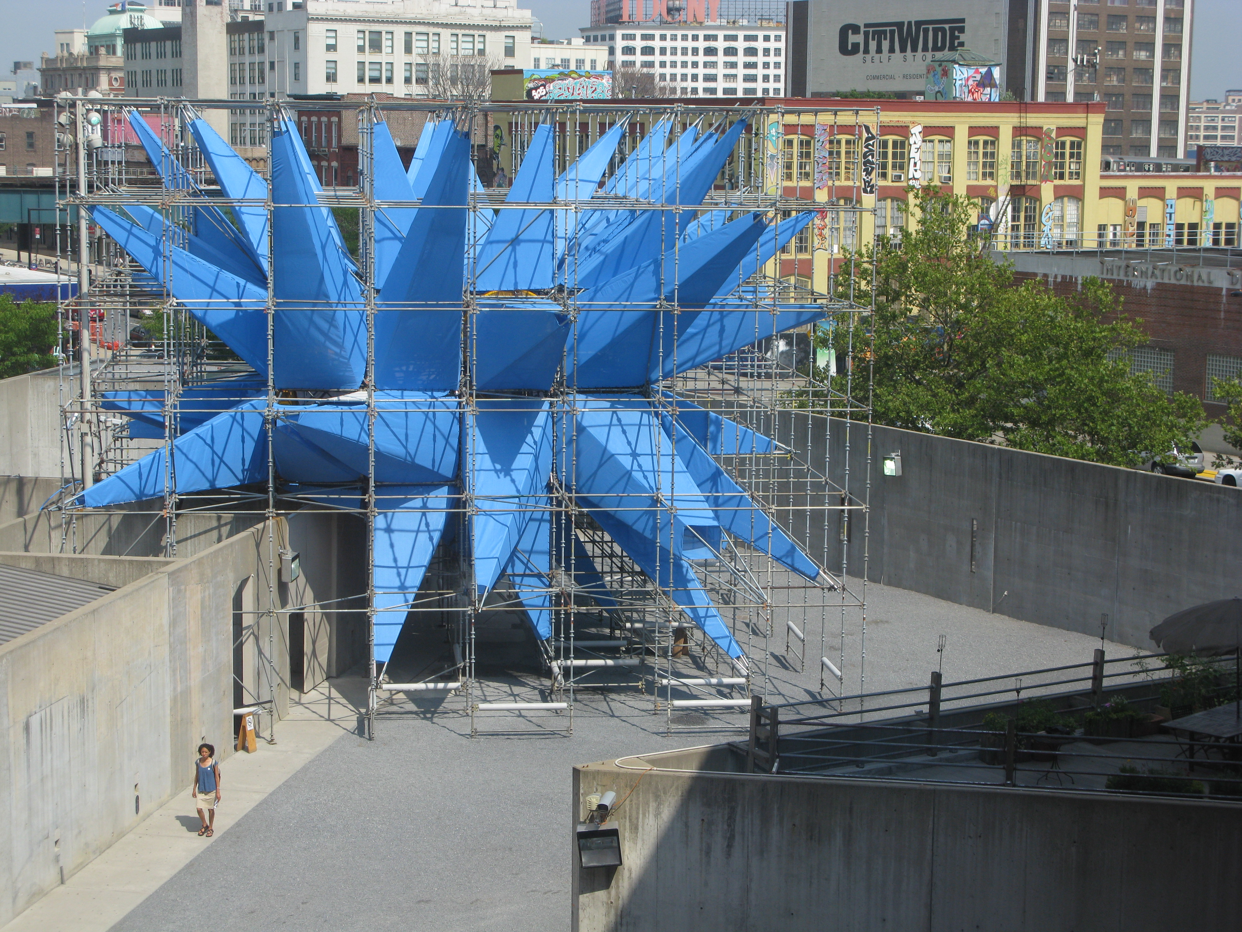 MoMA PS1 Queens New York NY, USA: Young Architects Program 2012: "Wendy"